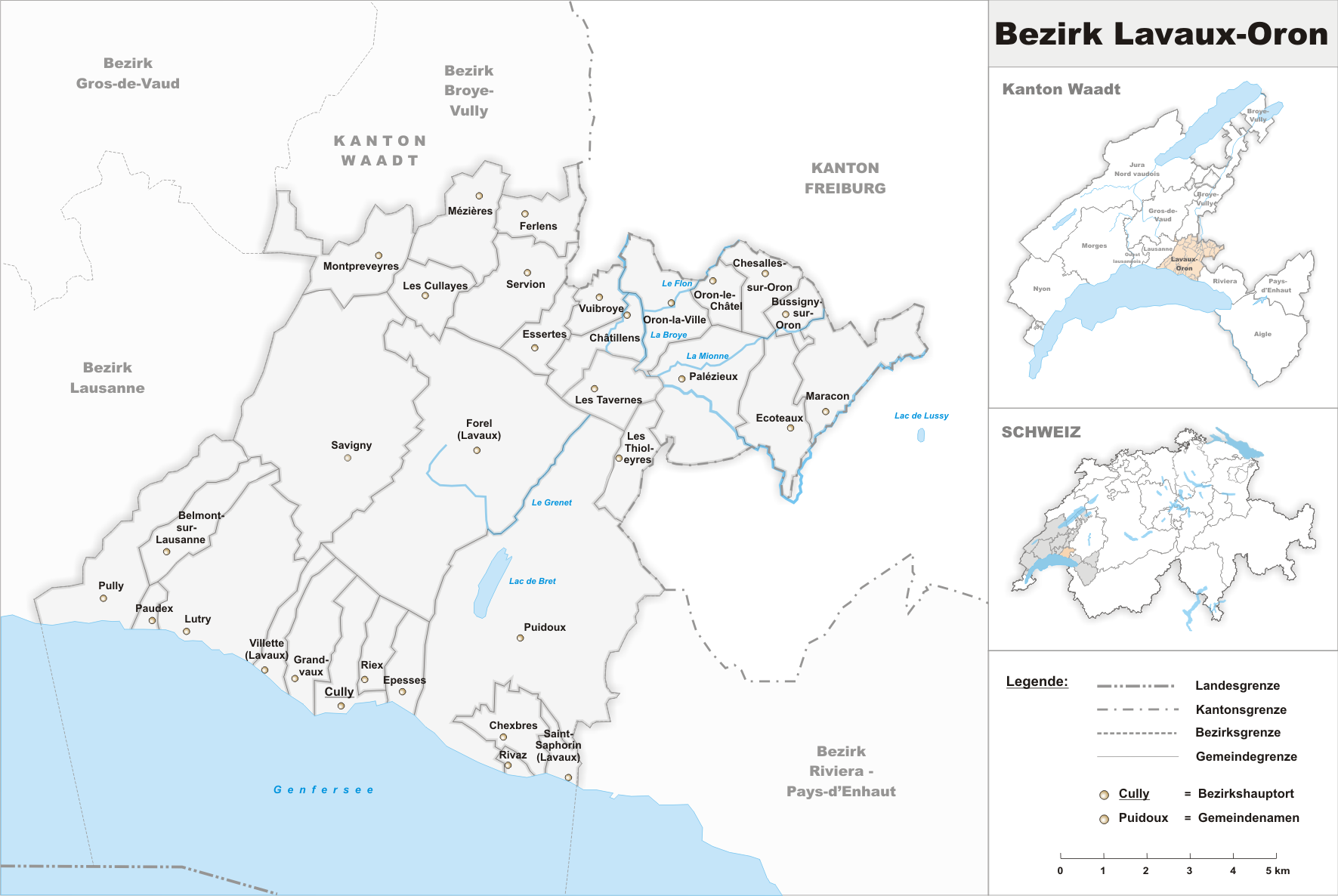 Municipalities in the district of Lavaux-Oron